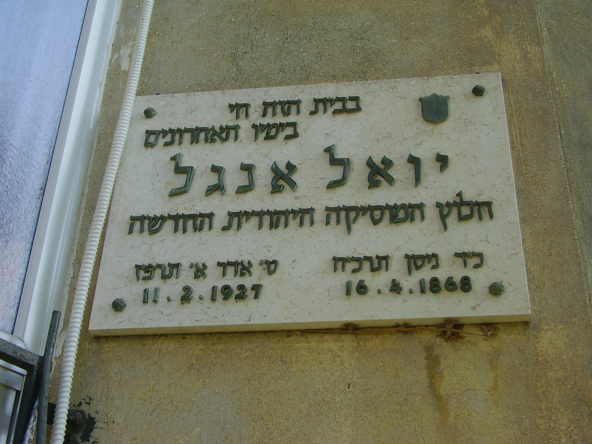 Memorial plaque to the composer Joel Engel in Tel Aviv לוחית זיכרון על הבית בו חי המלחין יואל אנגל את ימיו האחרונים ברח' הרב קוק 35 בתל אביב